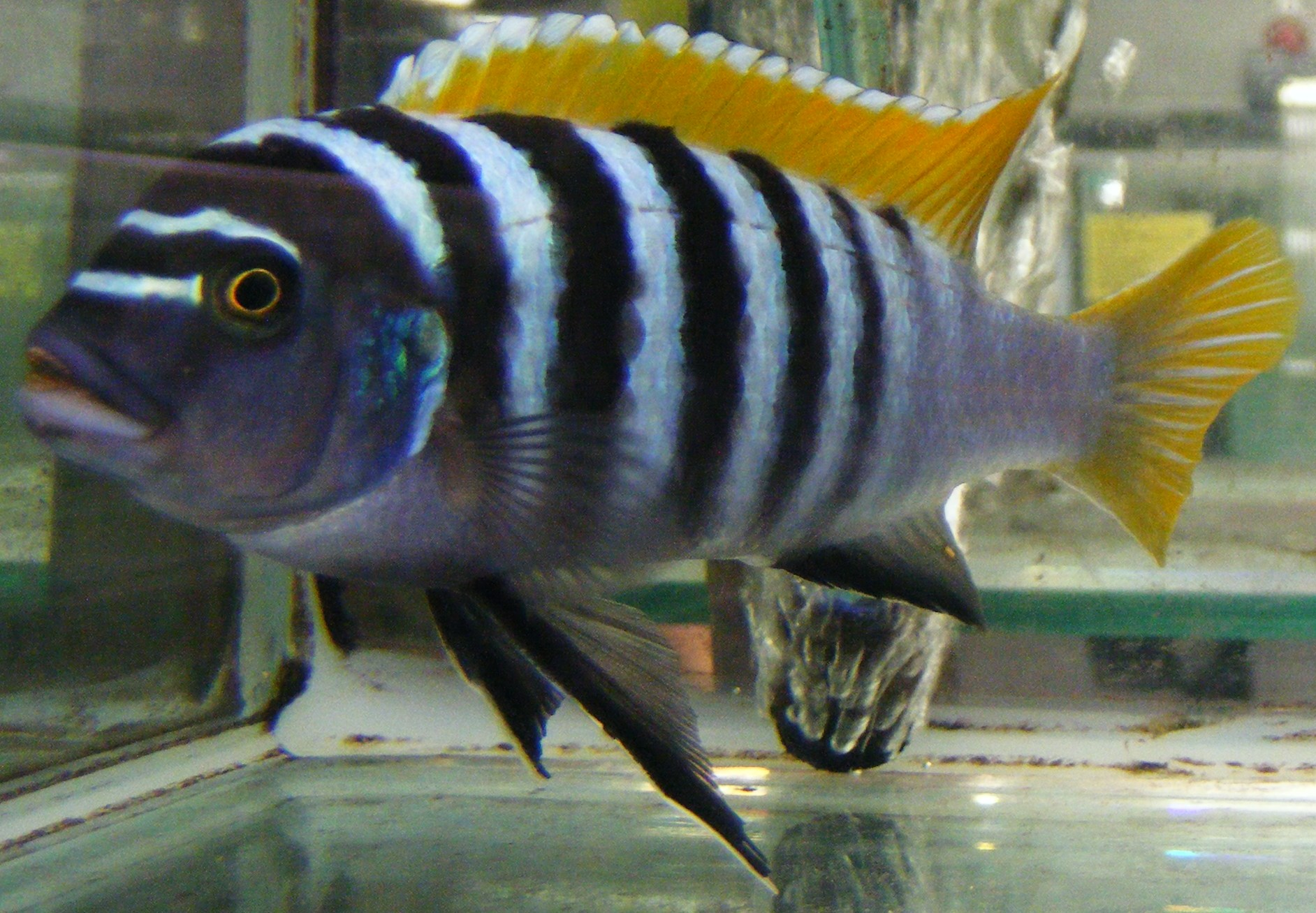 Maylandia emmiltos, wild caught male (Mphanga Rocks)